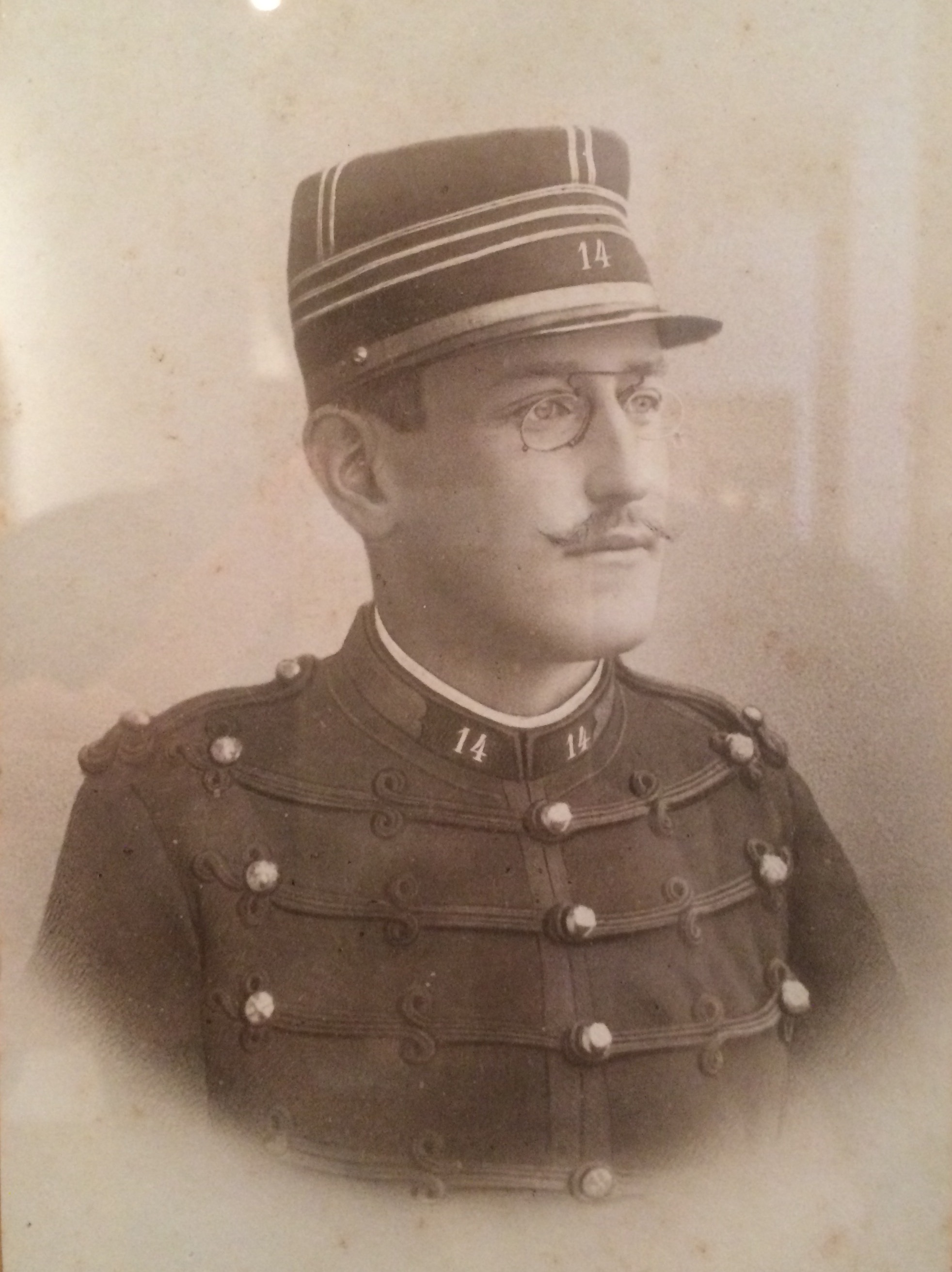 Alfred Dreyfus in 1890. Photo by Aron Gerschel - Musée d'Art et d'Histoire du Judaïsme